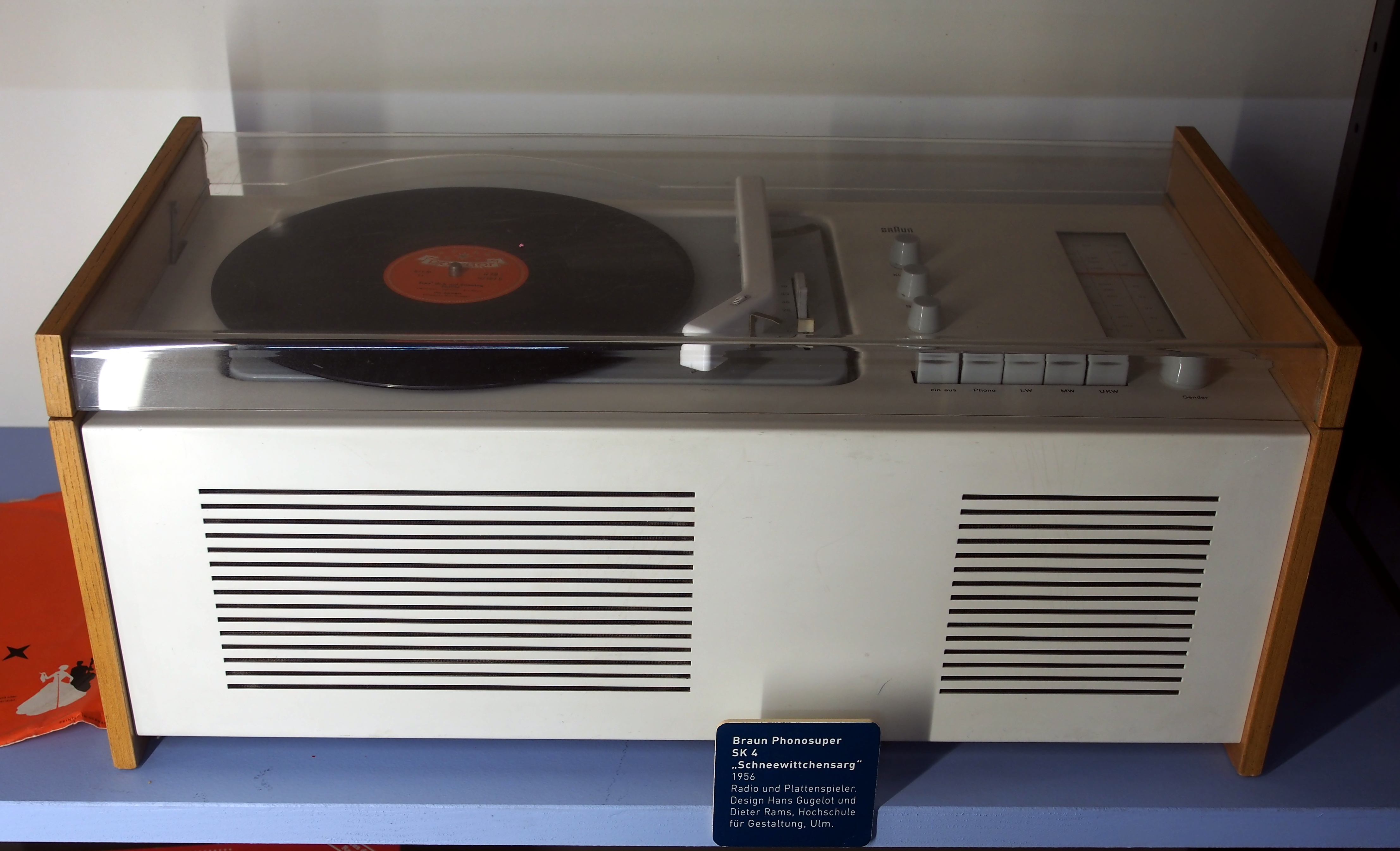 Photographed at the Auto & Uhrenwelt Schramberg museum.